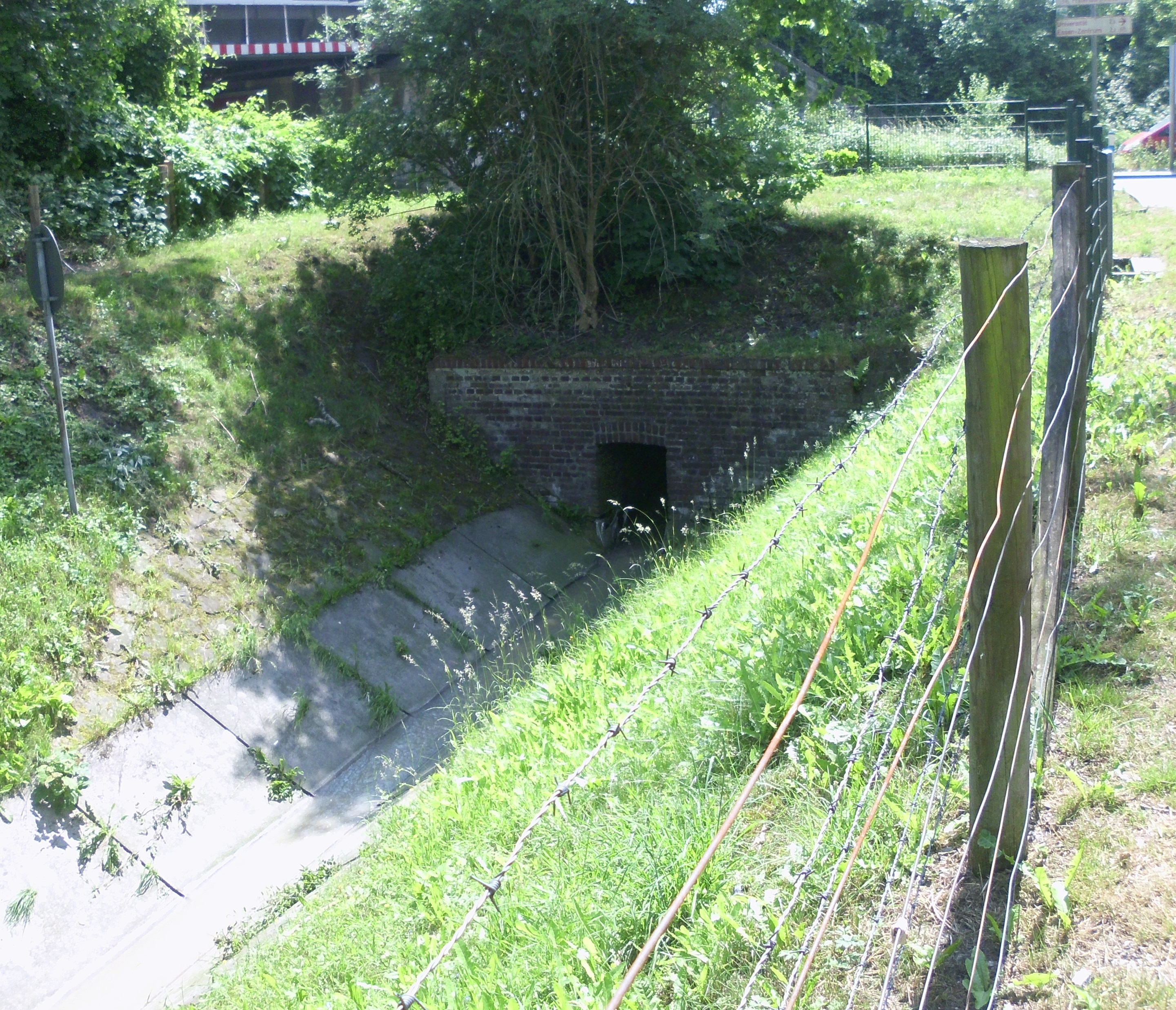 Surfacing of Stoppenberger Bach